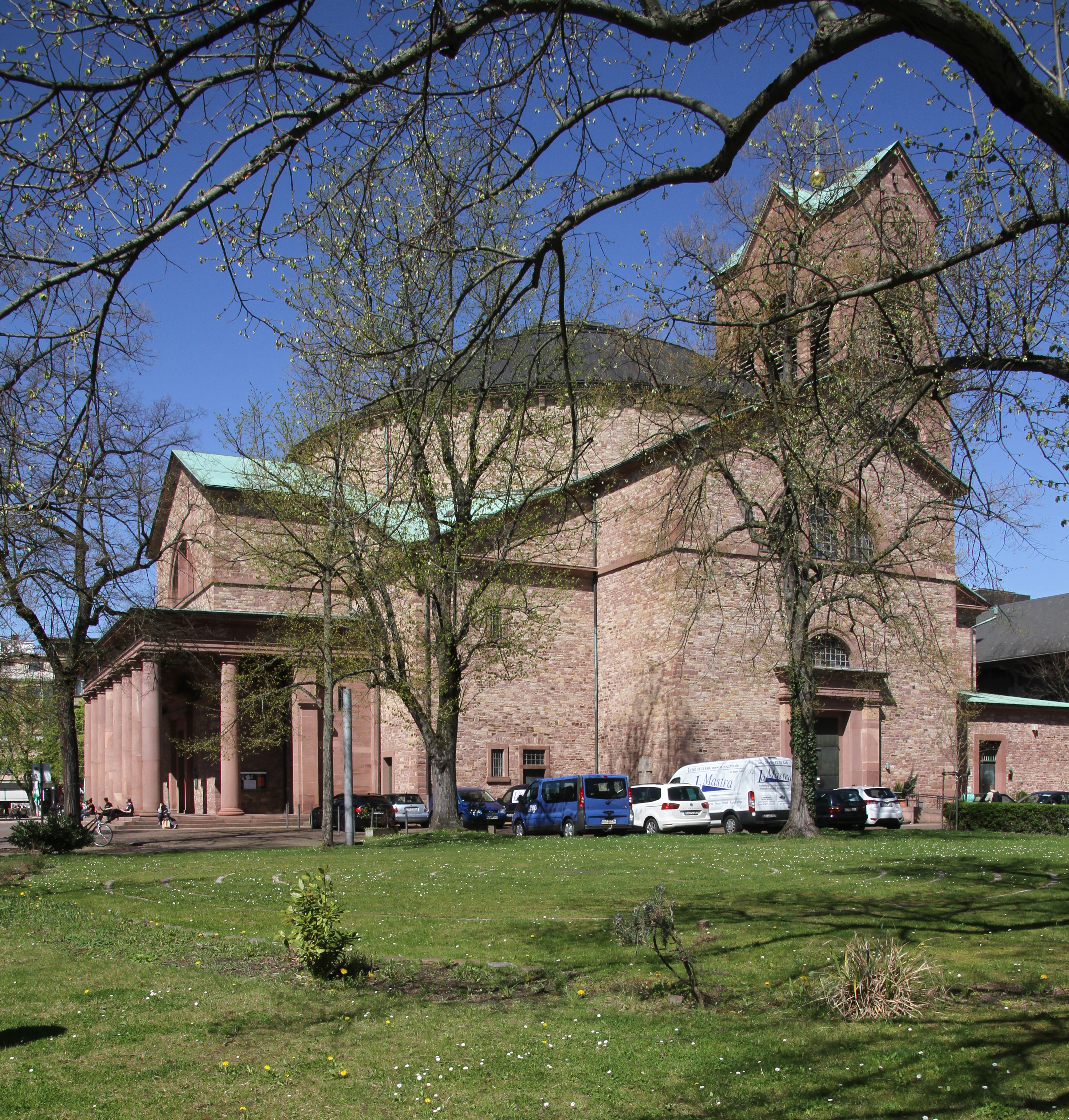 Church of St. Stephan in Karlsruhe.